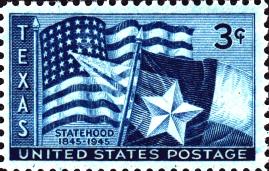 Texas_Statehood_1945_Issue-3c.jpg